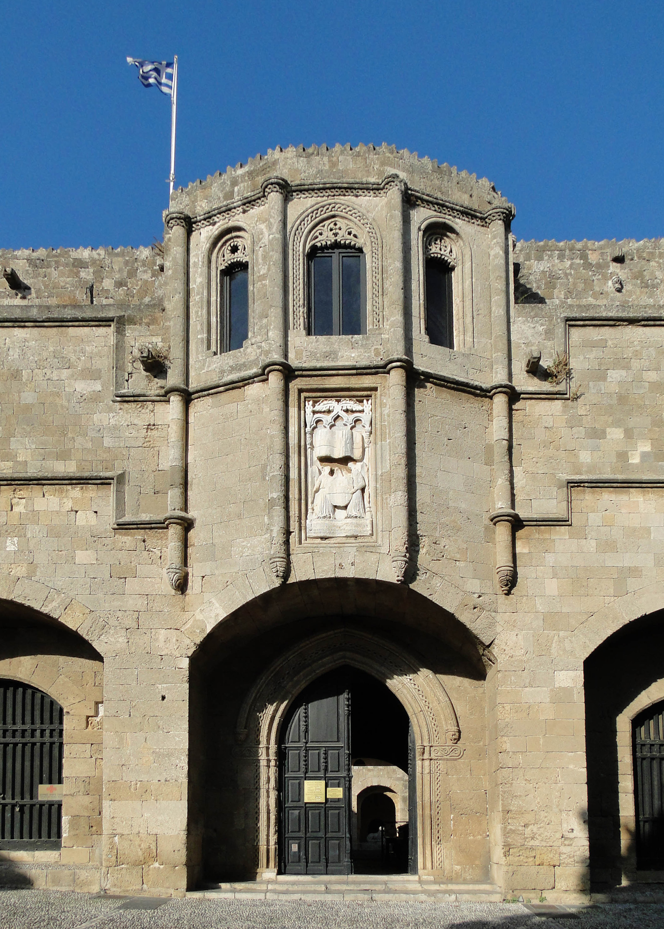 Main door of the Archaeological Museum of Rhodes, Greece